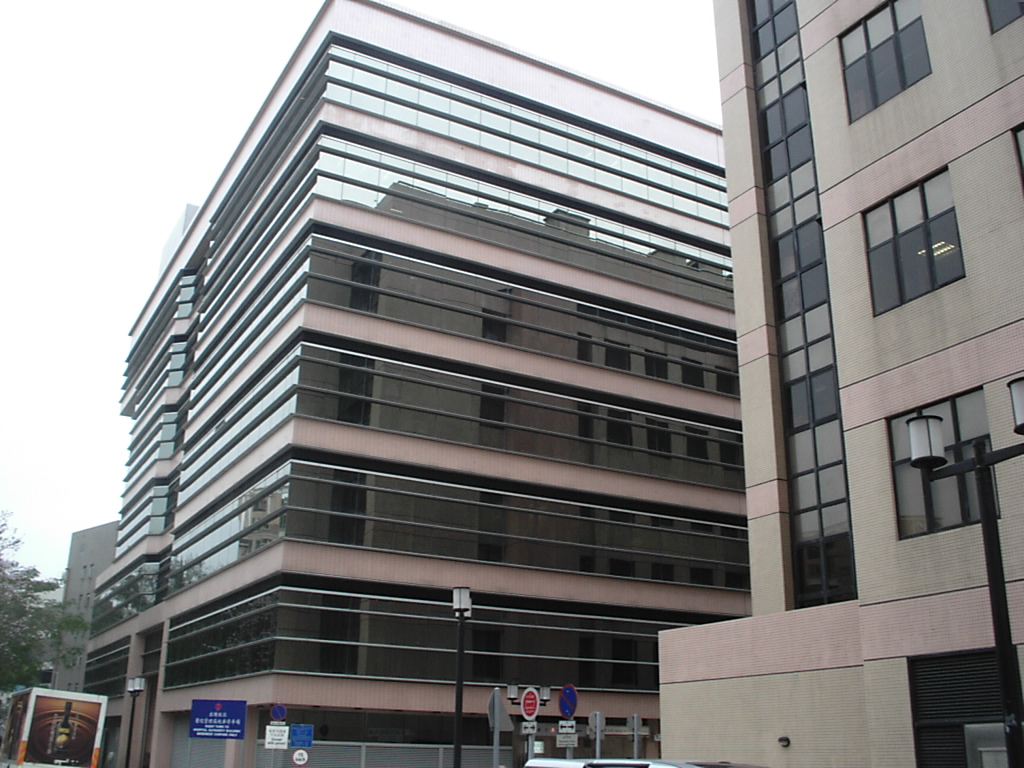 Hospital Authority (Hong Kong) head office